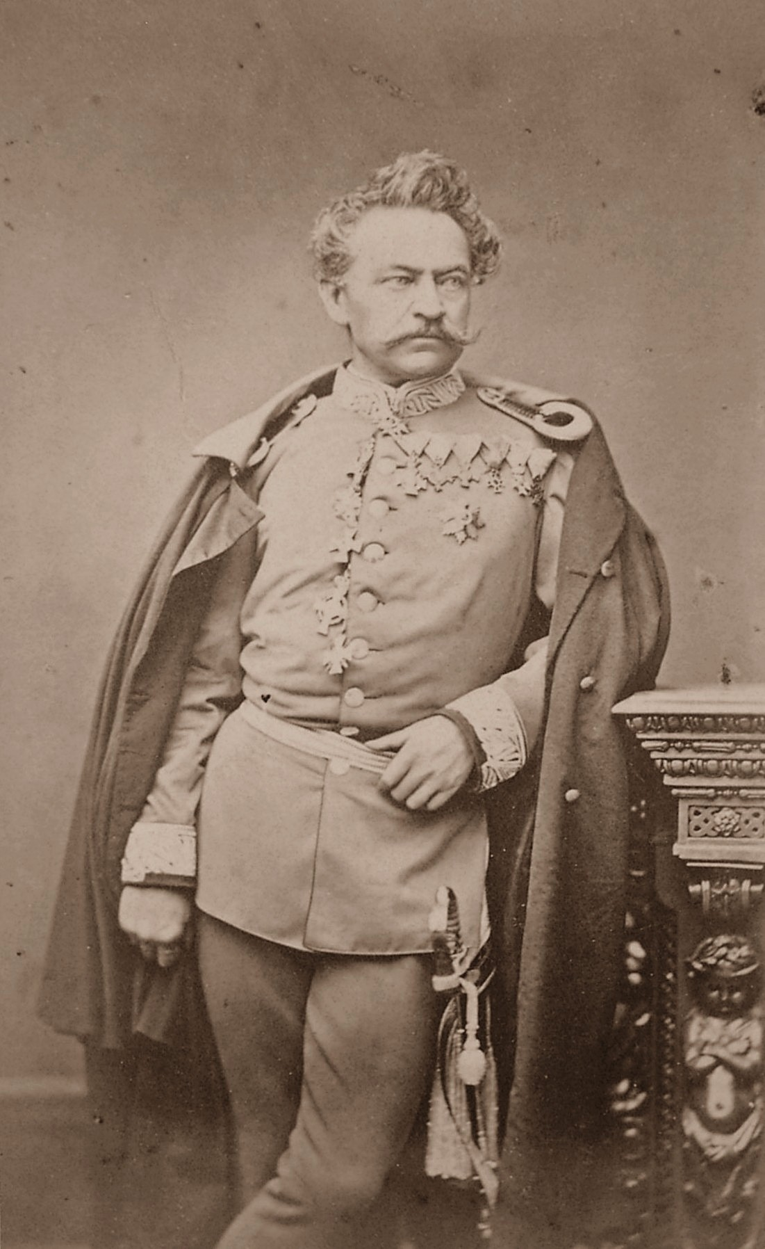 Portrait of Prince Karl Theodor of Bavaria (1795-1875), Bavarian Field Marshal and a member of the Wittelsbach dynasty.